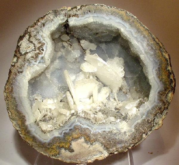 Calcite, Quartz (Var.: Chalcedony) Locality: Chihuahua, Mexico (Locality at ) A VERY SHOWY and beautiful MATCHED PAIR of Mexican geode halves. Lustrous, transparent to translucent, "angel-wing" calcite crystals to 3.5 cm rest on a lining of nicely contrasting blue chalcedony. An exceptional pair from Mexico. Choice material from the Lewadny Collection. 13.0 x 12.2 x 5.3 cm